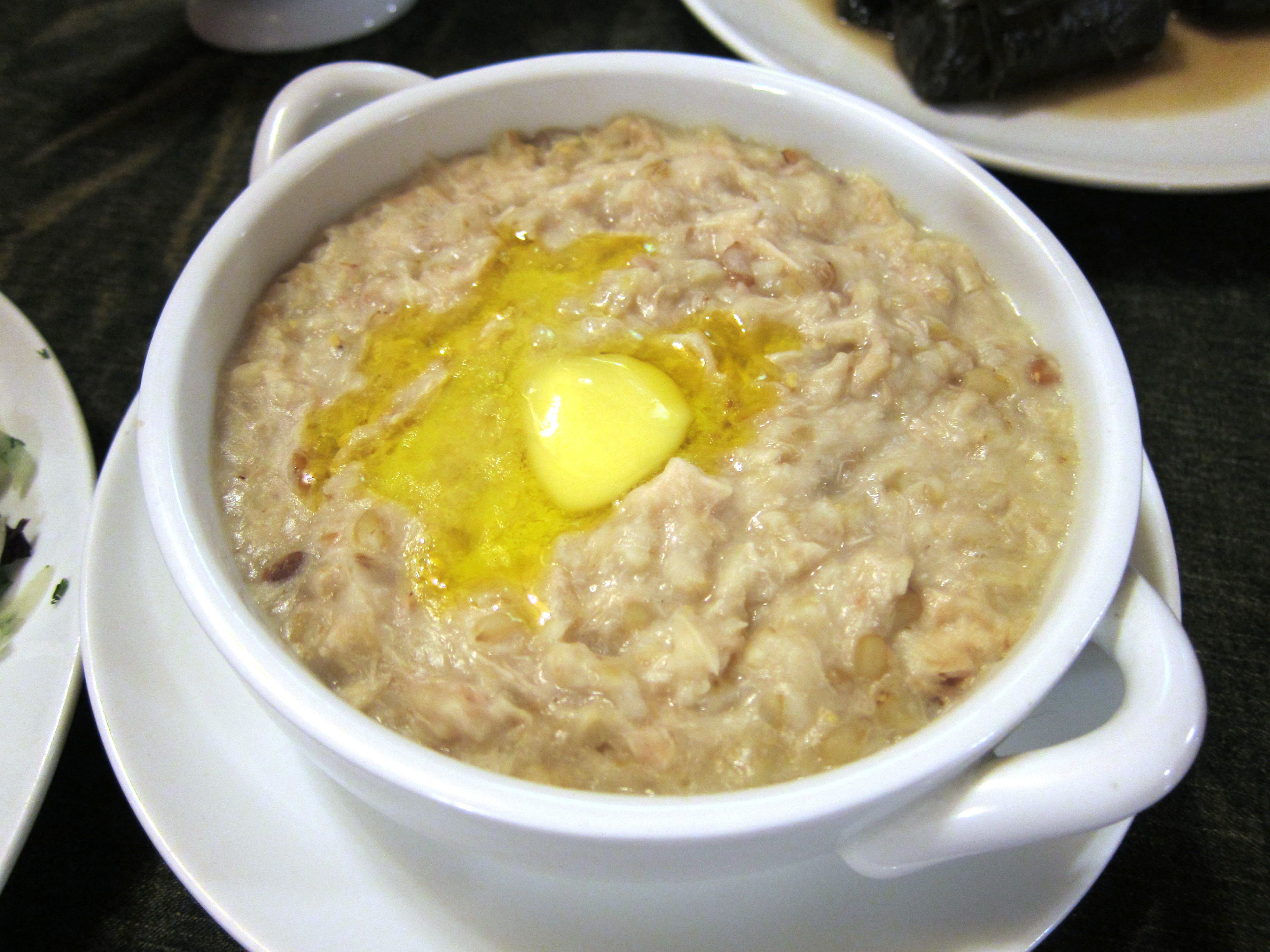 Armenian Harisa. Kilikia Restaurant, Yerevan, Armenia.